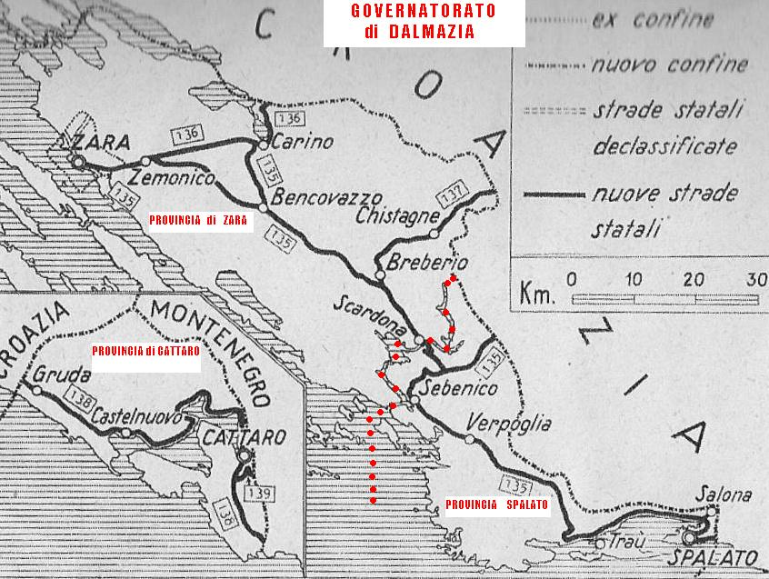 Map of "Governatorato di Dalmazia" (1941-1943) taken from old book about Italian history during WWII, edited in 1941. I have cut the image and added data in red with my software.